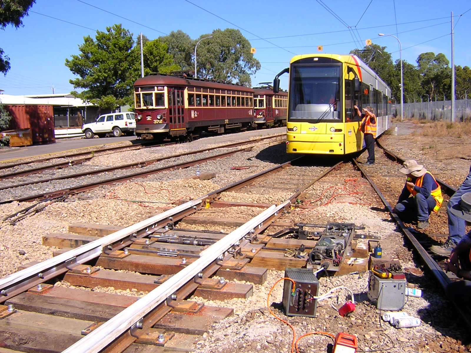 White-painted track, technical equipment and workers are in the foreground; further back is a yellow Bombardier Flexity Classic tram and a dual Type H tram consist on a nearby track in Adelaide Metro's tram depot, Glengowrie, South Australia.